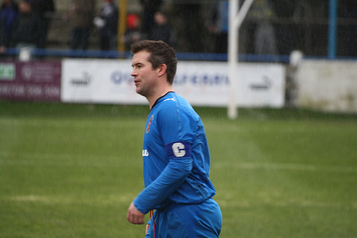 Marc Limbert Bangor City Captain